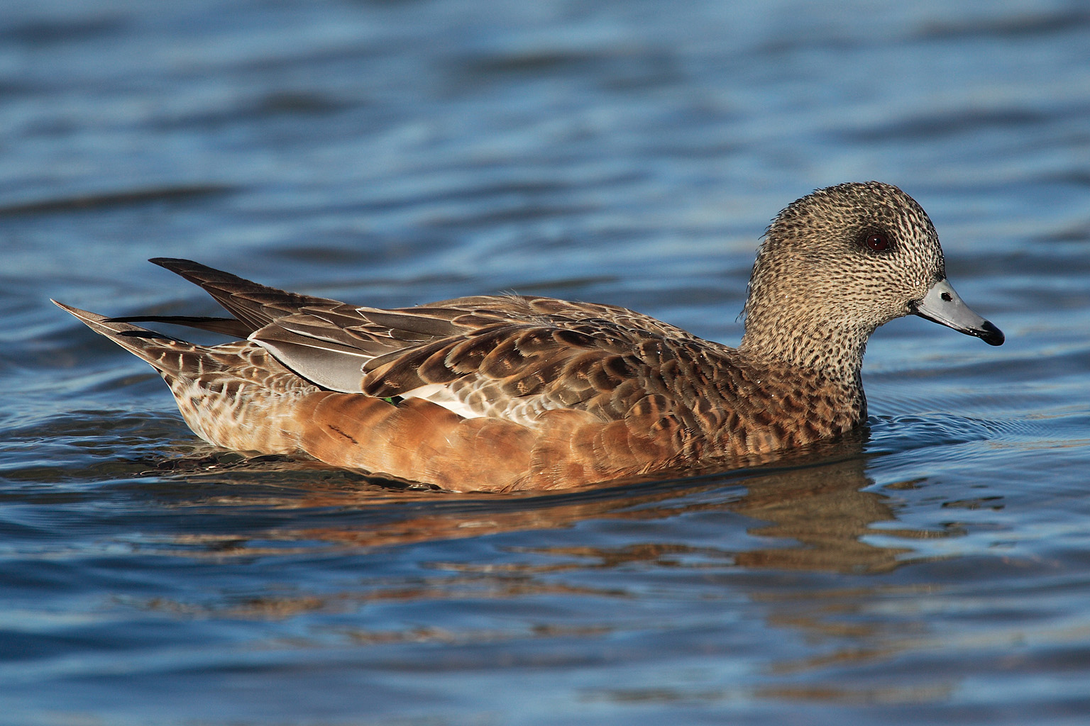 Female American Wigeon (Anas americana), Humber Bay Park (East), Toronto, Canada.